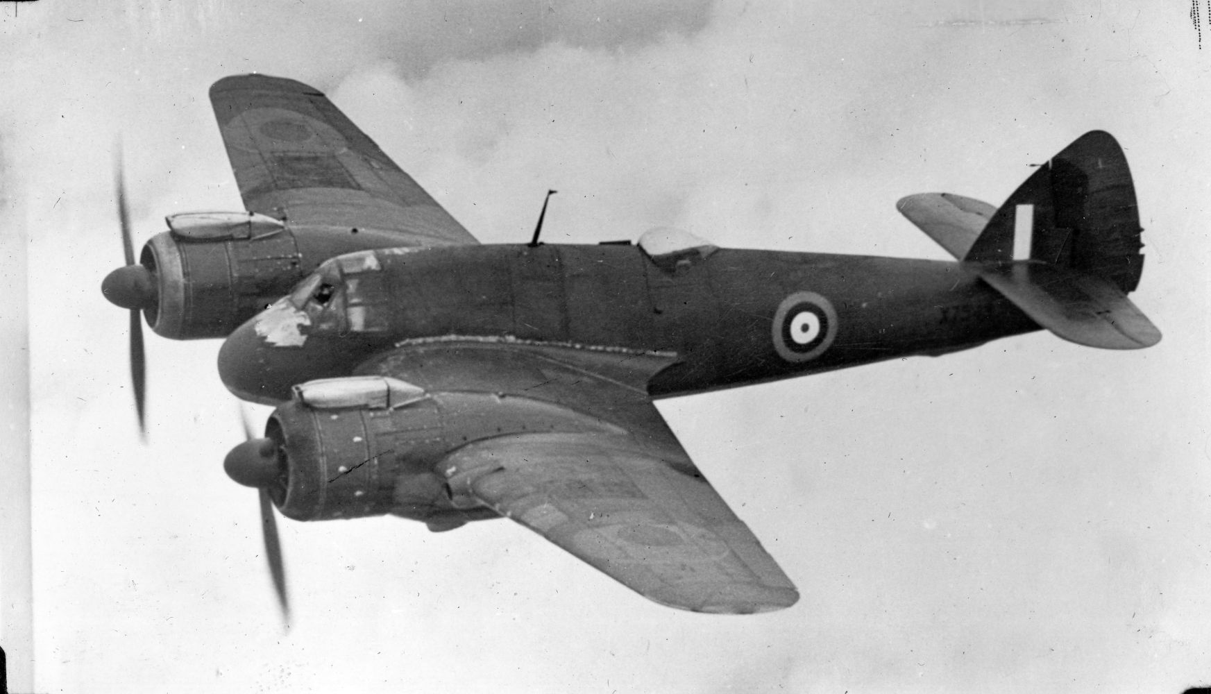 Images from an Album (AL-61A) which belonged to Mr. Lowry and was donated to the Leisure World Aerospace Club.